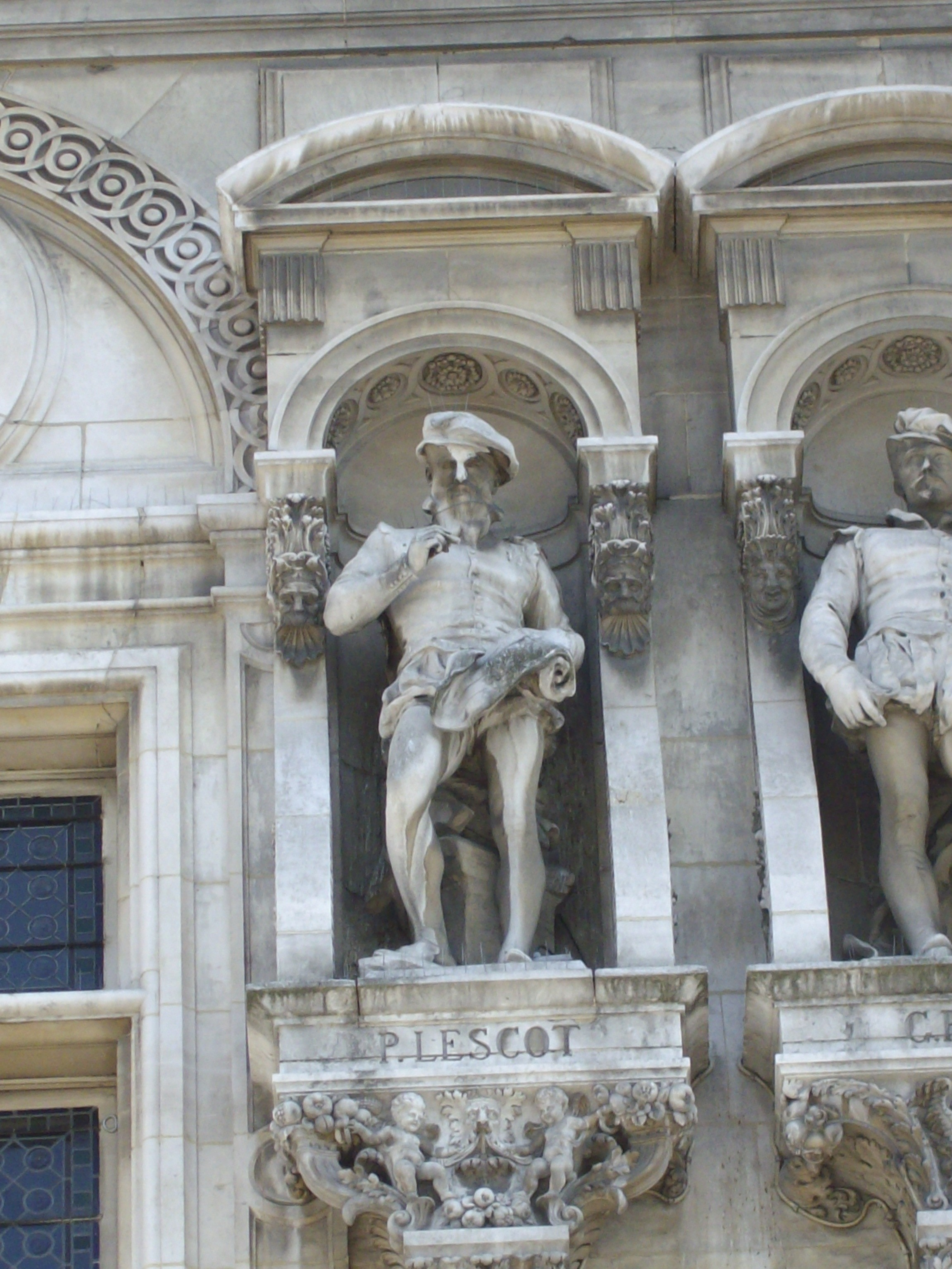 Statues of the City Hall in Paris, France